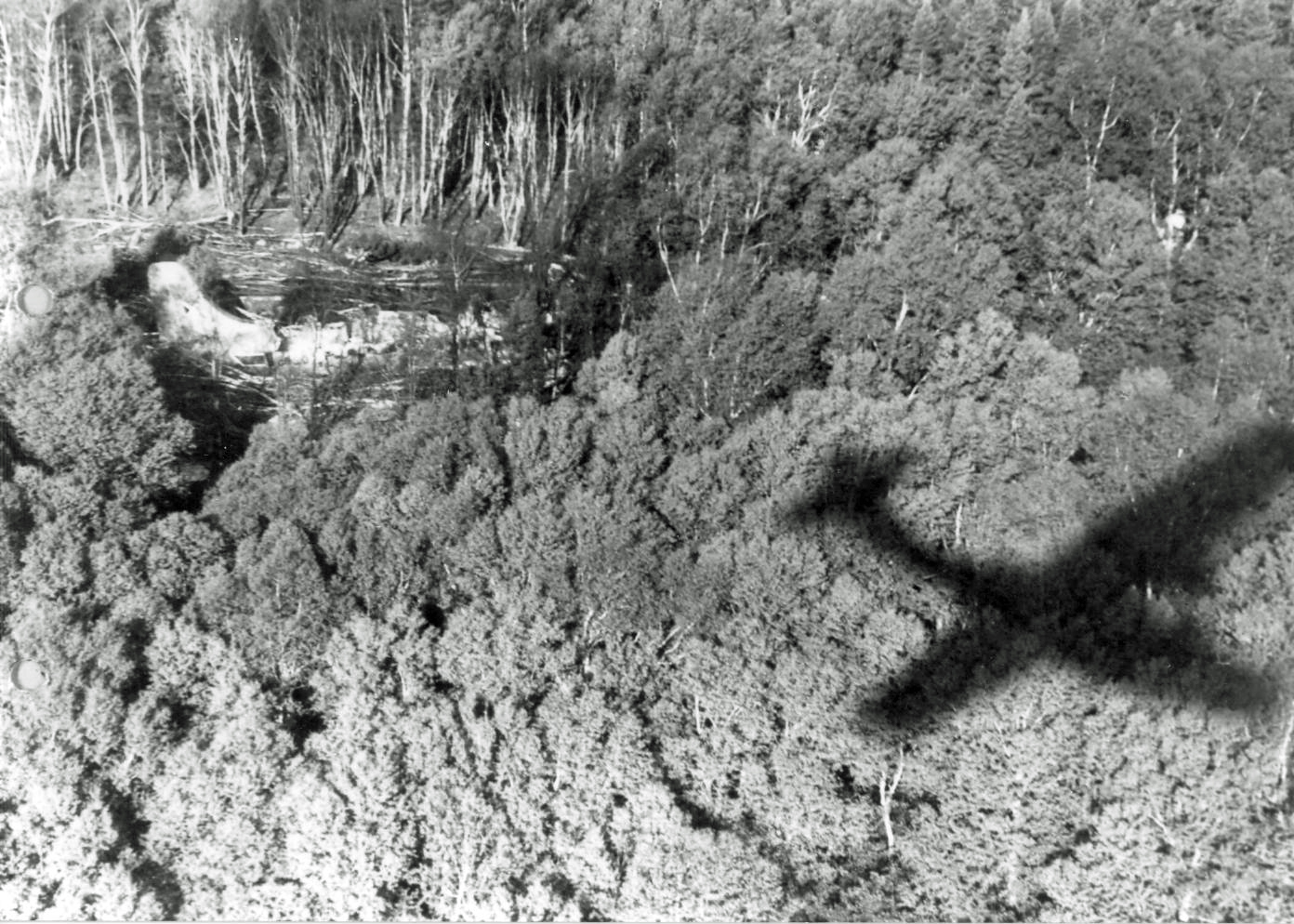 The shadow of a U.S. Coast Guard Consolidated PBY-5A Catalina at the crash site of a Belgian SABENA Douglas DC-4, circa 35 km south-west of Gander International Airport, Newfoundland. The DC-4 OO-CBG crashed due to a pilot error on the approach to Gander on the flight from Brussels (Belgium) to New York (USA) on 18 September 1946, killing 27 of 44 people on board. Rescue teams, mainly from the U.S. Coast Guard, made the first helicopter rescue and saved the remaining passengers, most of whom were injured.